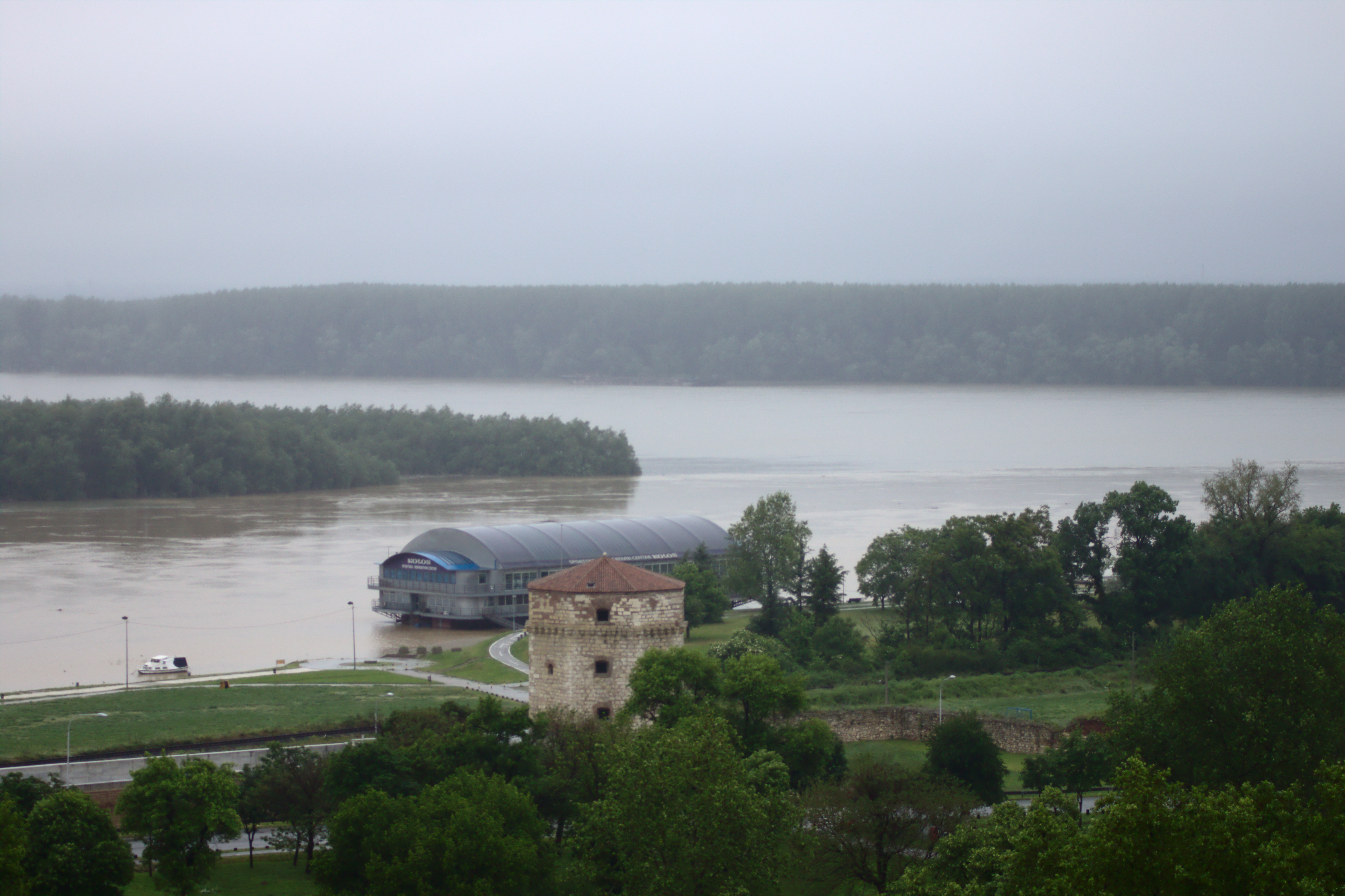 View of the Sava and Danube confluence in Belgrade, seen during Sava flood from Kalemegdan Fortress, Belgrade